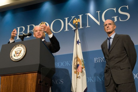 Vice President Joe Biden answers a question after delivering a speech outlining the first 200 days of the American Recovery and Reinvestment Act at the Brookings Institution in Washington, DC. To the Vice President's right is Strobe Talbott, President of the Brookings Institution.